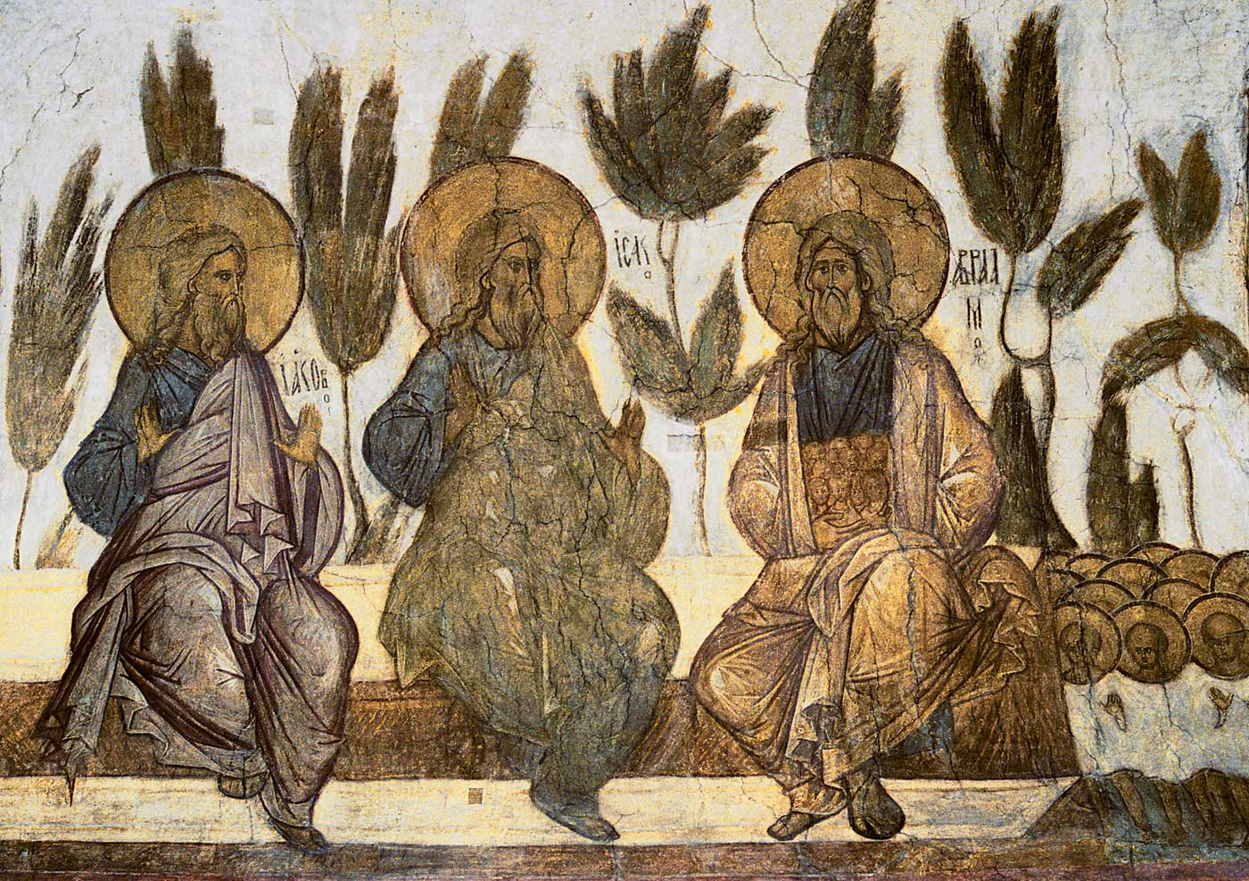 Daniil Chyorny (Russian: Даниил Чёрный) (c. 1360 – 1430) was a Russian monk and icon painter.